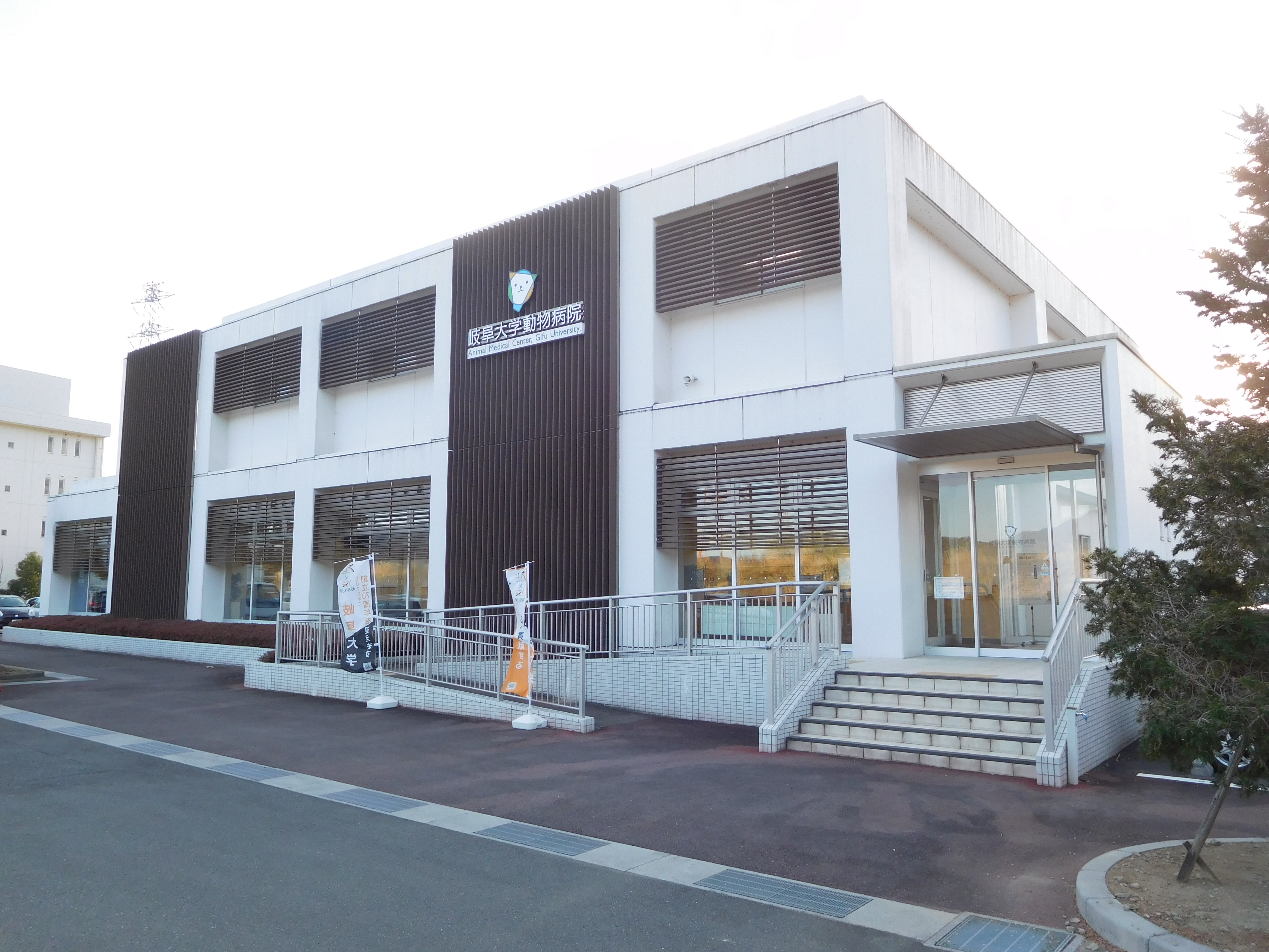 This is Animal Medical Center, Gifu University in Gifu city, gifu prefecture, Japan.